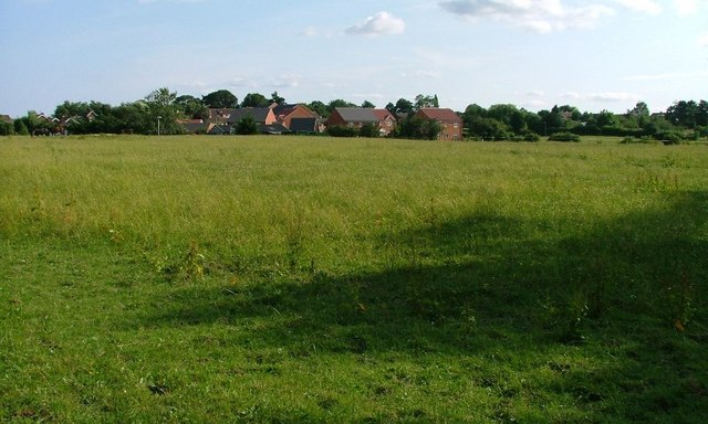 The north side of Kirklevington, North Yorkshire